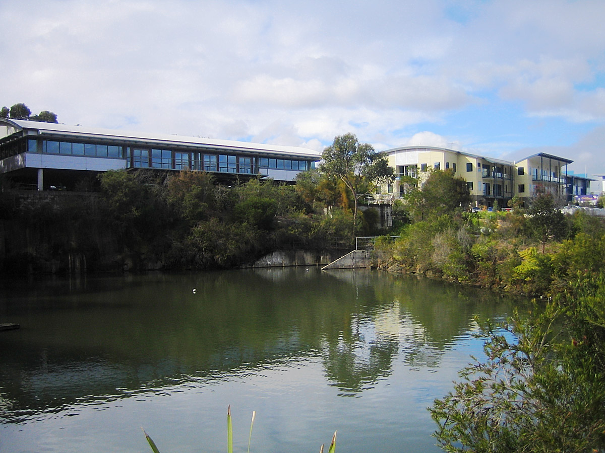 Buildings at Austlink Business Park, Belrose, New South Wales; mfunnell; 20JUL2006; from behind 9 Narabang Way.